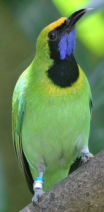 Golden-fronted Leafbird - photo at Jurong Bird Park, Singapore